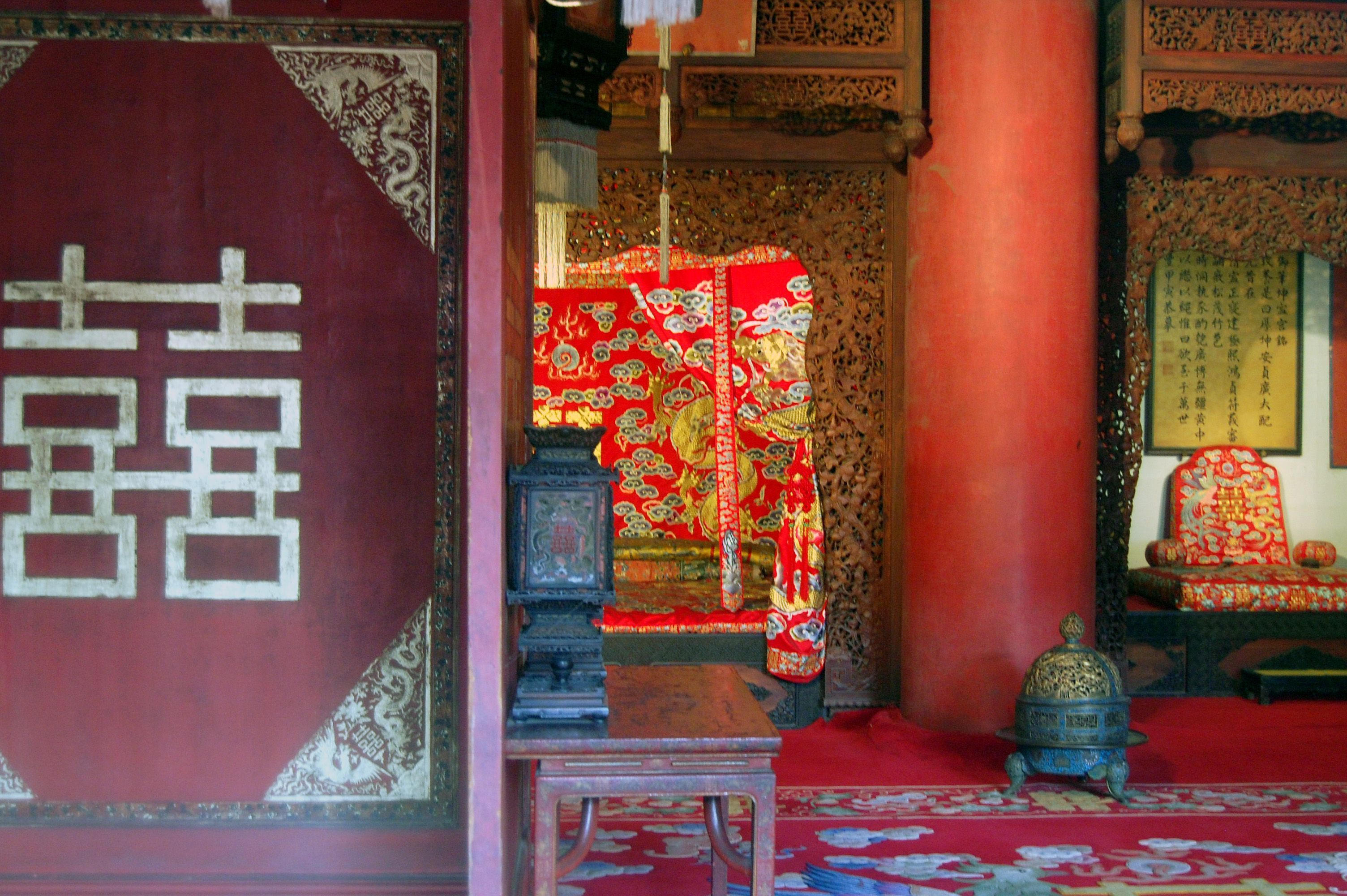 A room inside the Forbidden City in Beijing with traditional Chinese wedding decorations 坤宁宫